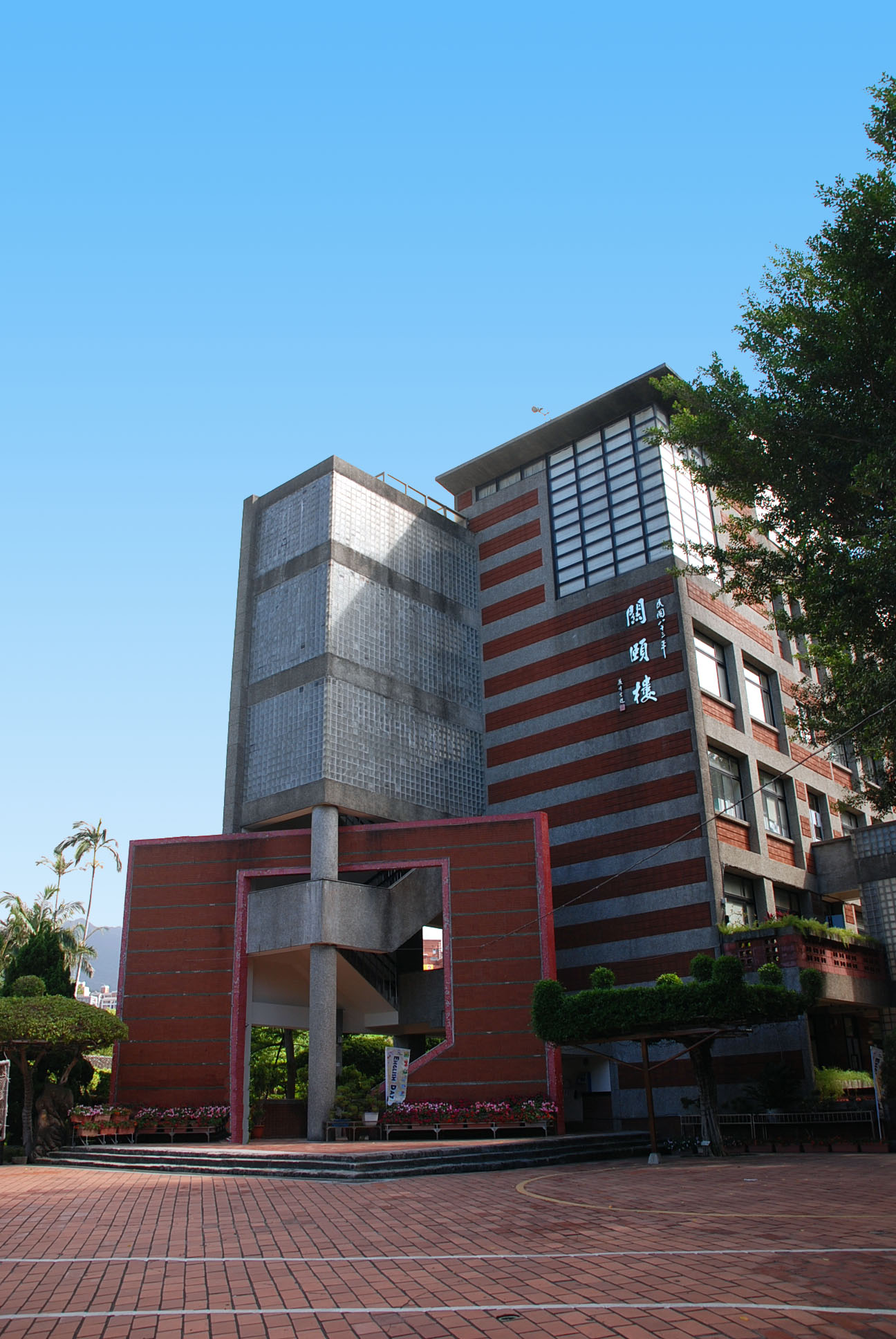 Guan Yi Building, Taipei Private Wego Elementary School.